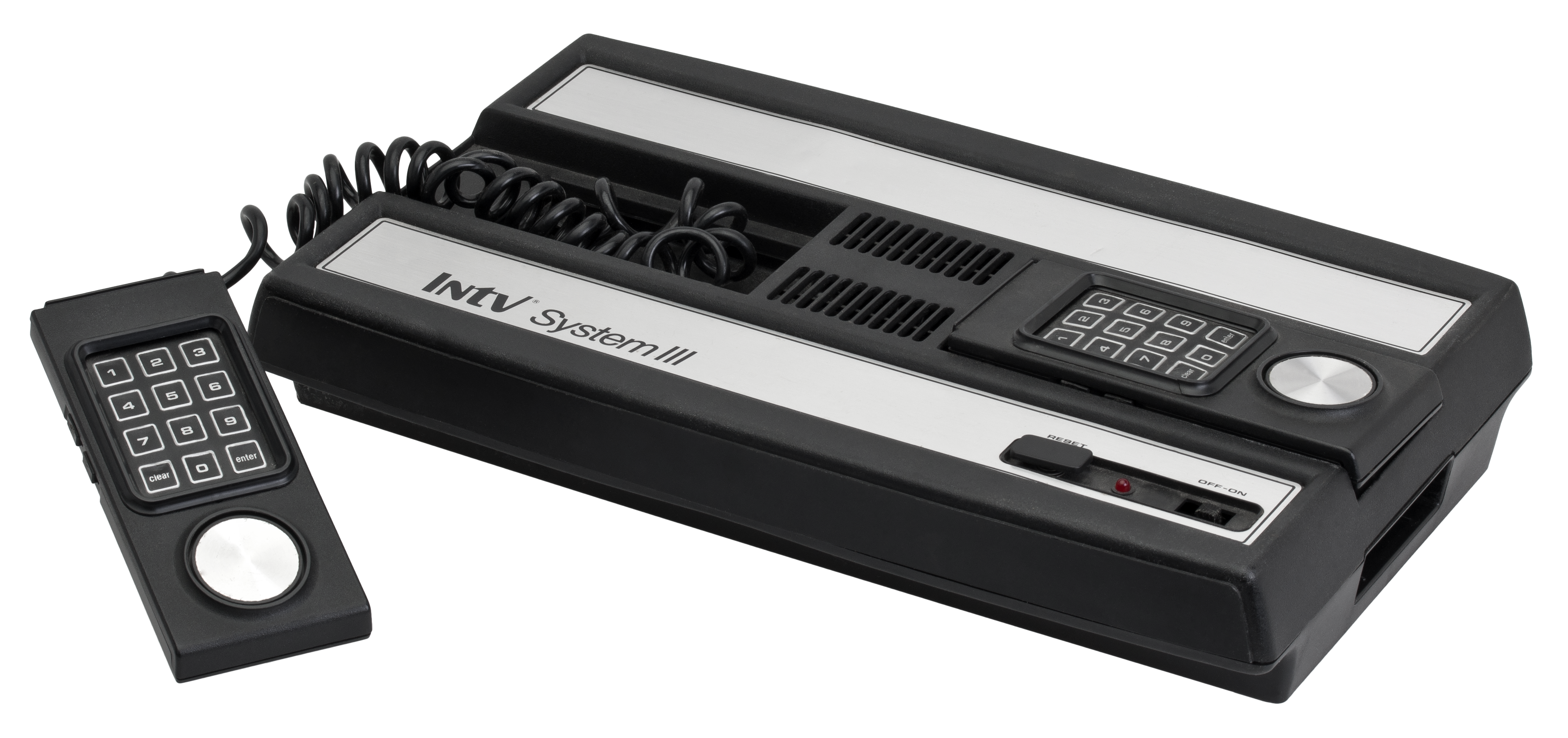 The INTV System III video game console. This is the third redesign of the Intellivision console and was released following INTV's buying of the Intellivision rights in 1985.